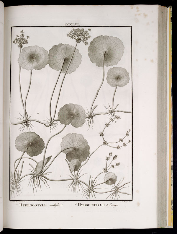 Page from South American botany book with Hydrocotyle bonariensis and Hydrocotyle tribotrys